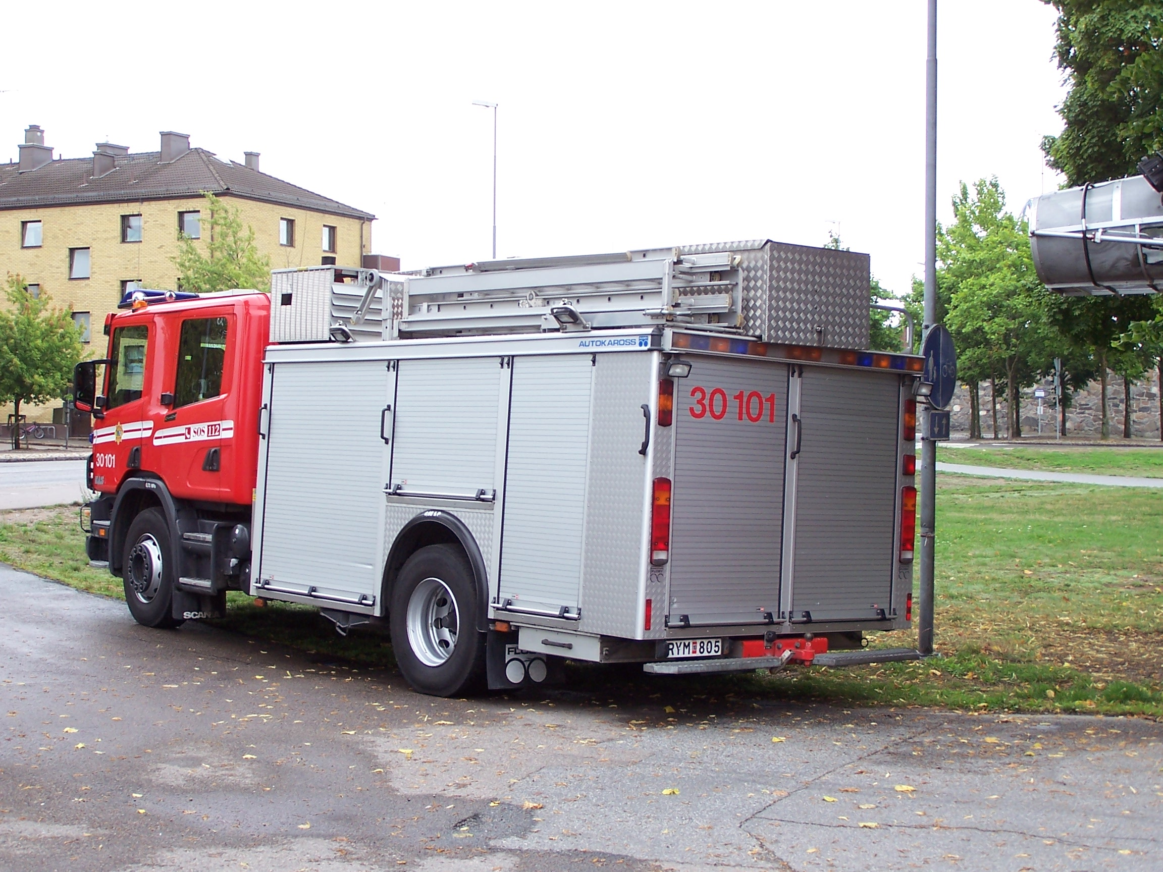 Back of fire engine in Karlskrona, Scania P114G.